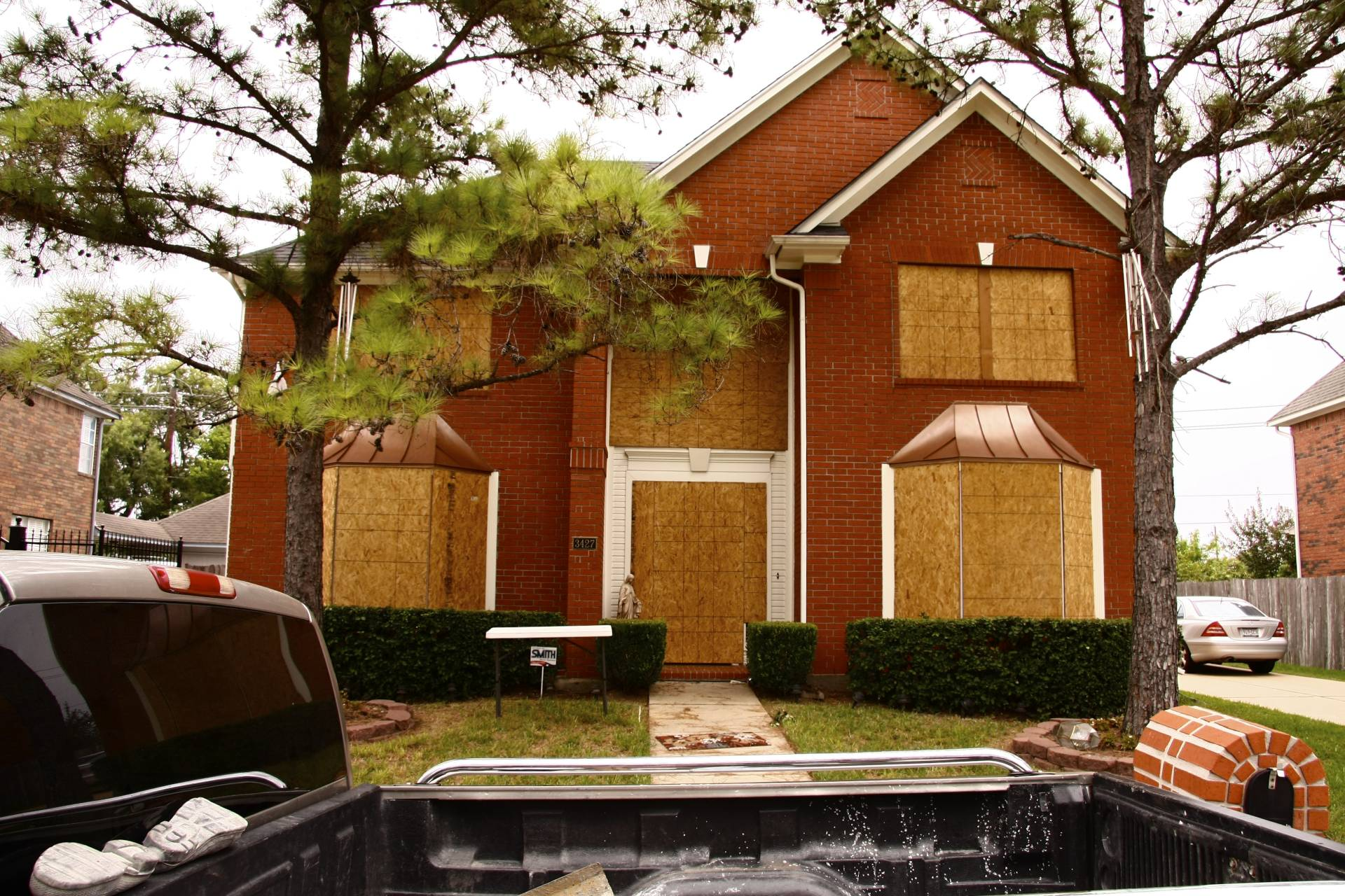 Hurricane Ike, a house boarded up totally for Ike preperation, Houston, Texas